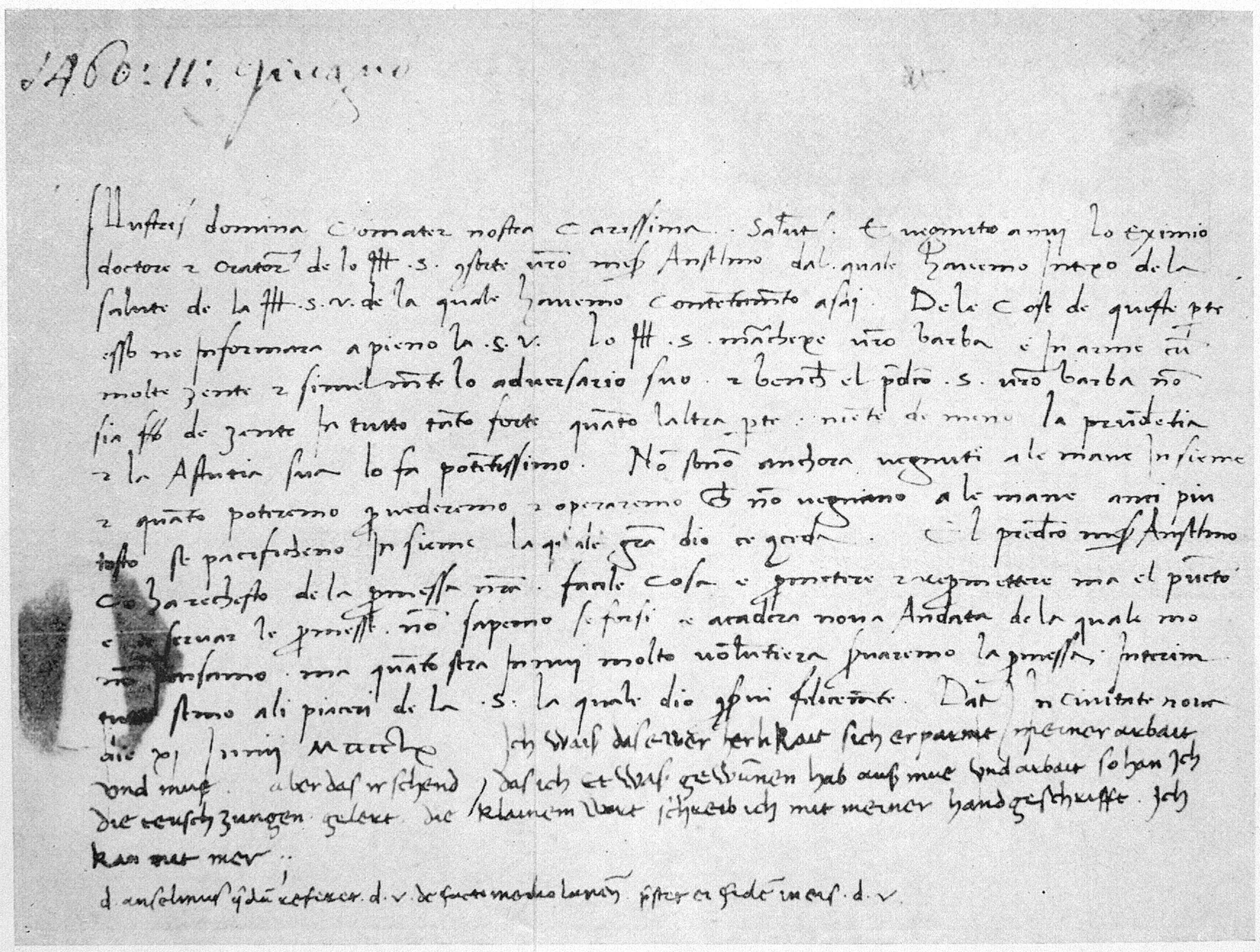 Cardinal Bessarion’s letter to the marchioness of Mantua, Barbara of Brandenburg, sent from Wiener Neustadt. Bessarion is staying at Vienna, where he is acting as a papal legate. He informs the marchioness in a German postscript to the Italian letter that he has learnt some German in the course of his legation. The letter is in Mantua’s Archivio di Stato (Archivio Gonzaga B 439 Nr. 85).